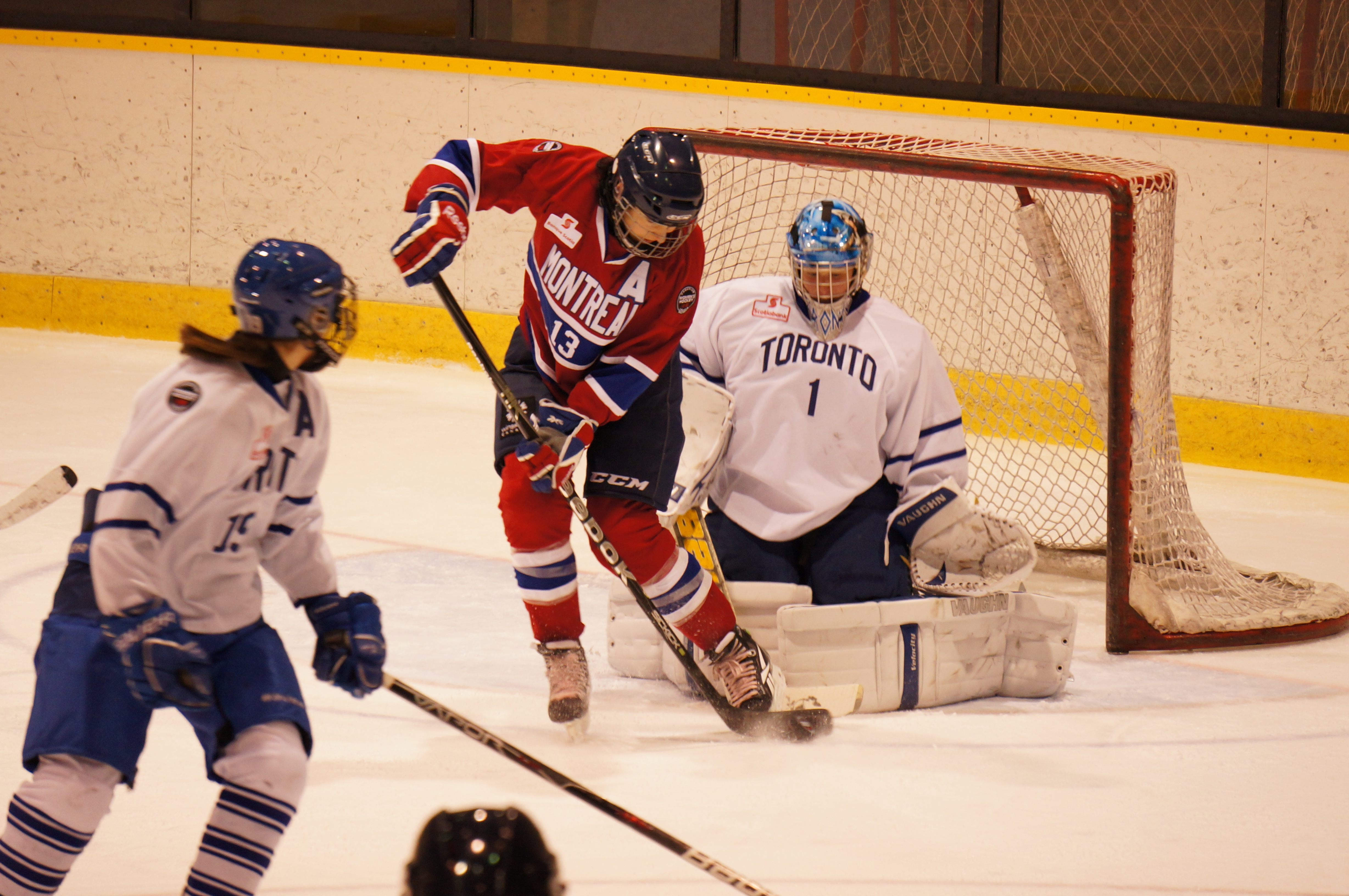 Montreal Stars